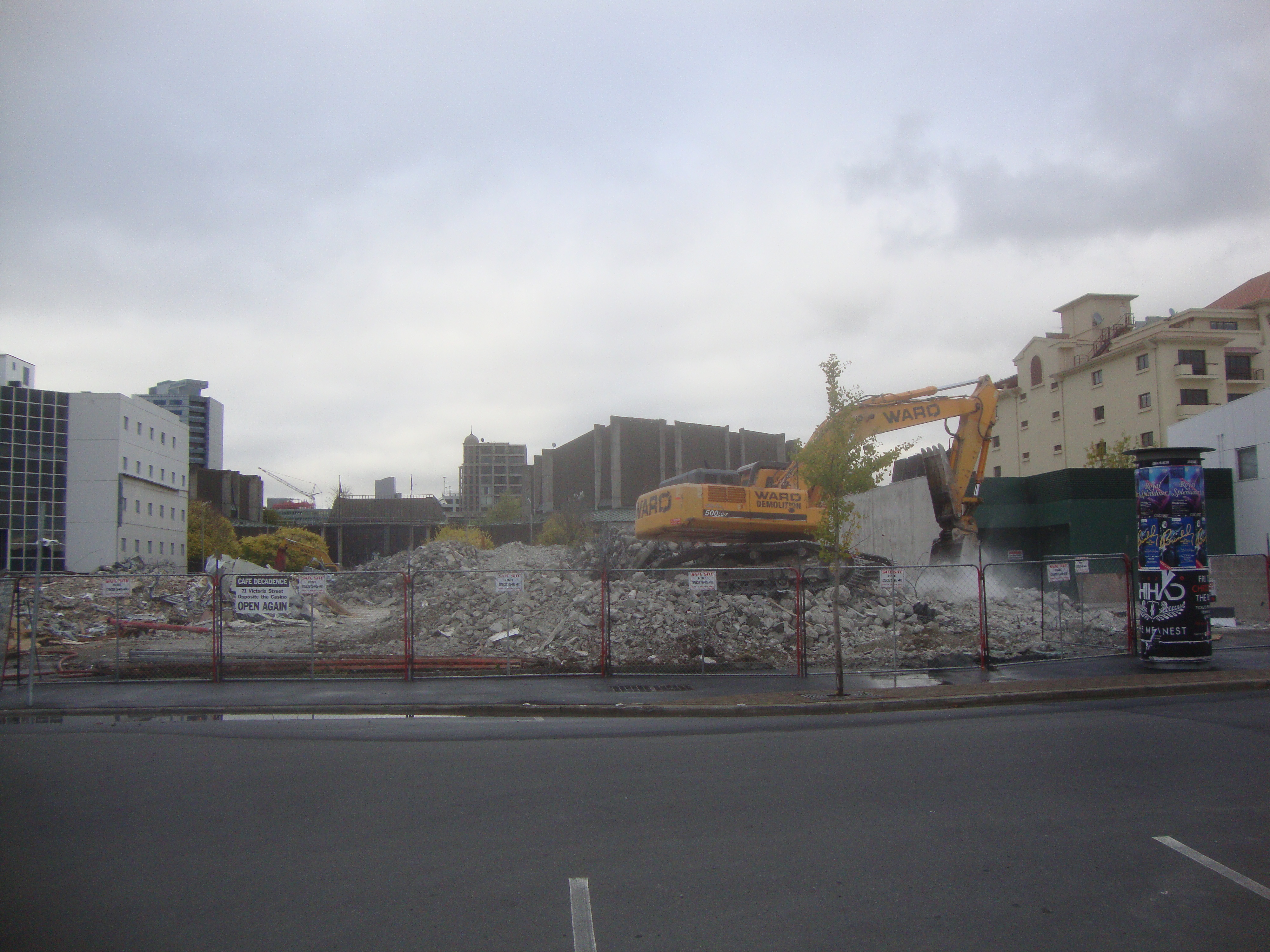 Christchurch Town Hall as seen from Peterborough Street after demolition.